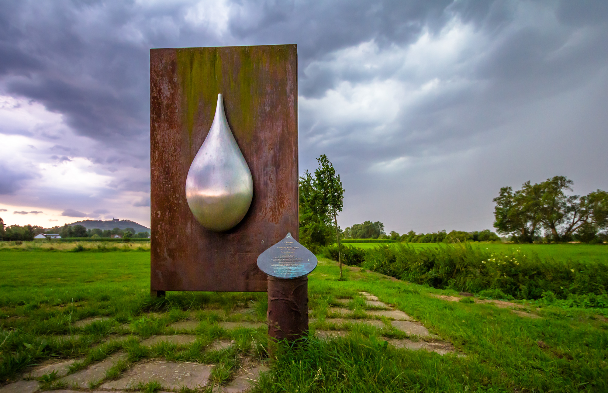 Sculpture by Luigi Colani